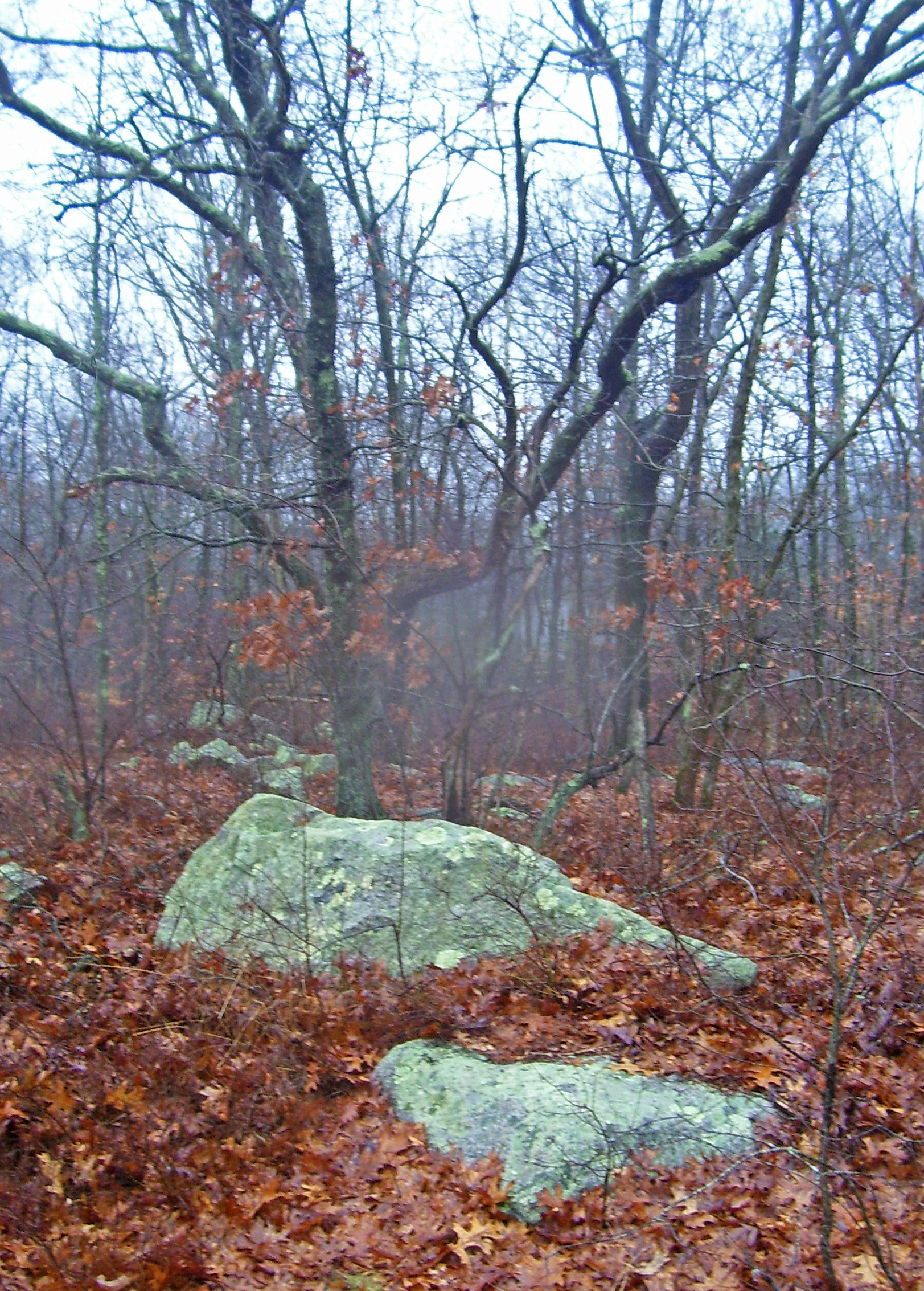 Summit of Pocasset Hill, in Tiverton, RI, USA the highest point in Newport County at 320 feet (98 m) above sea level.